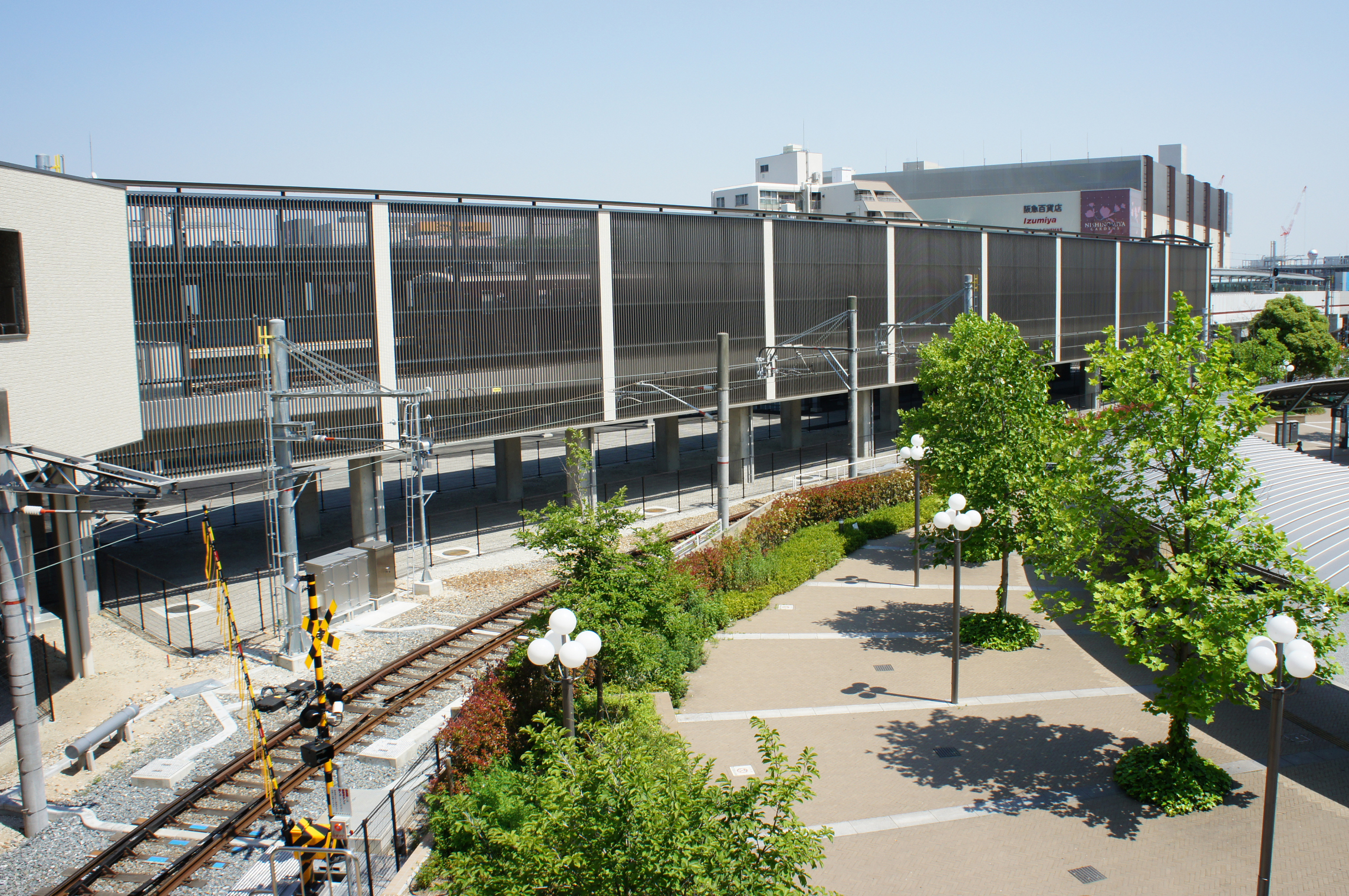 Hankyu Nishinomiya-Kitaguchi sta track5